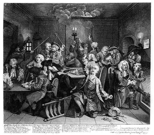 William Hogarth: A Rake's Progress, Plate 6: Scene In A Gaming House, Engraving, 35.5 x 41cm